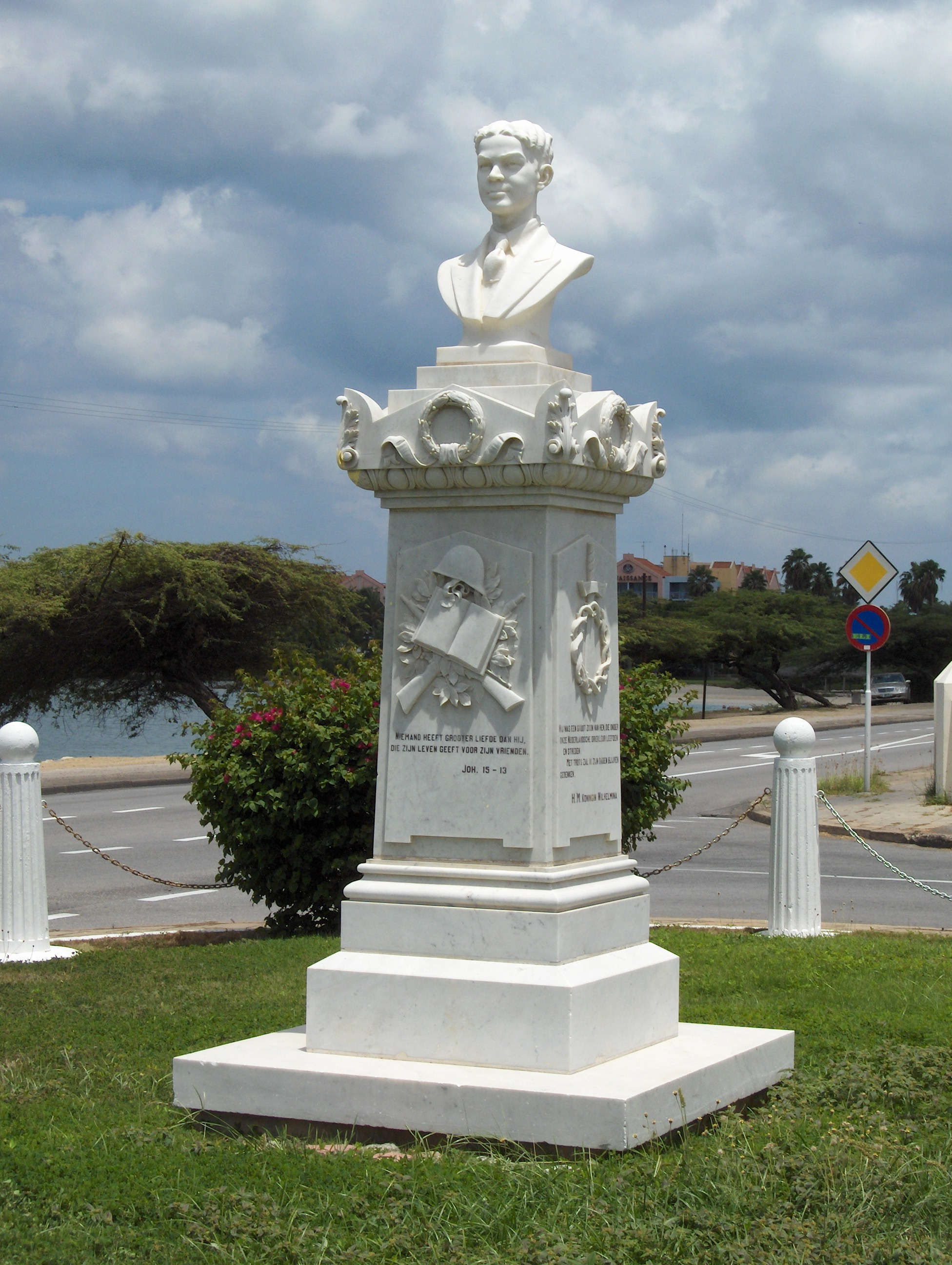 Boy Ecury